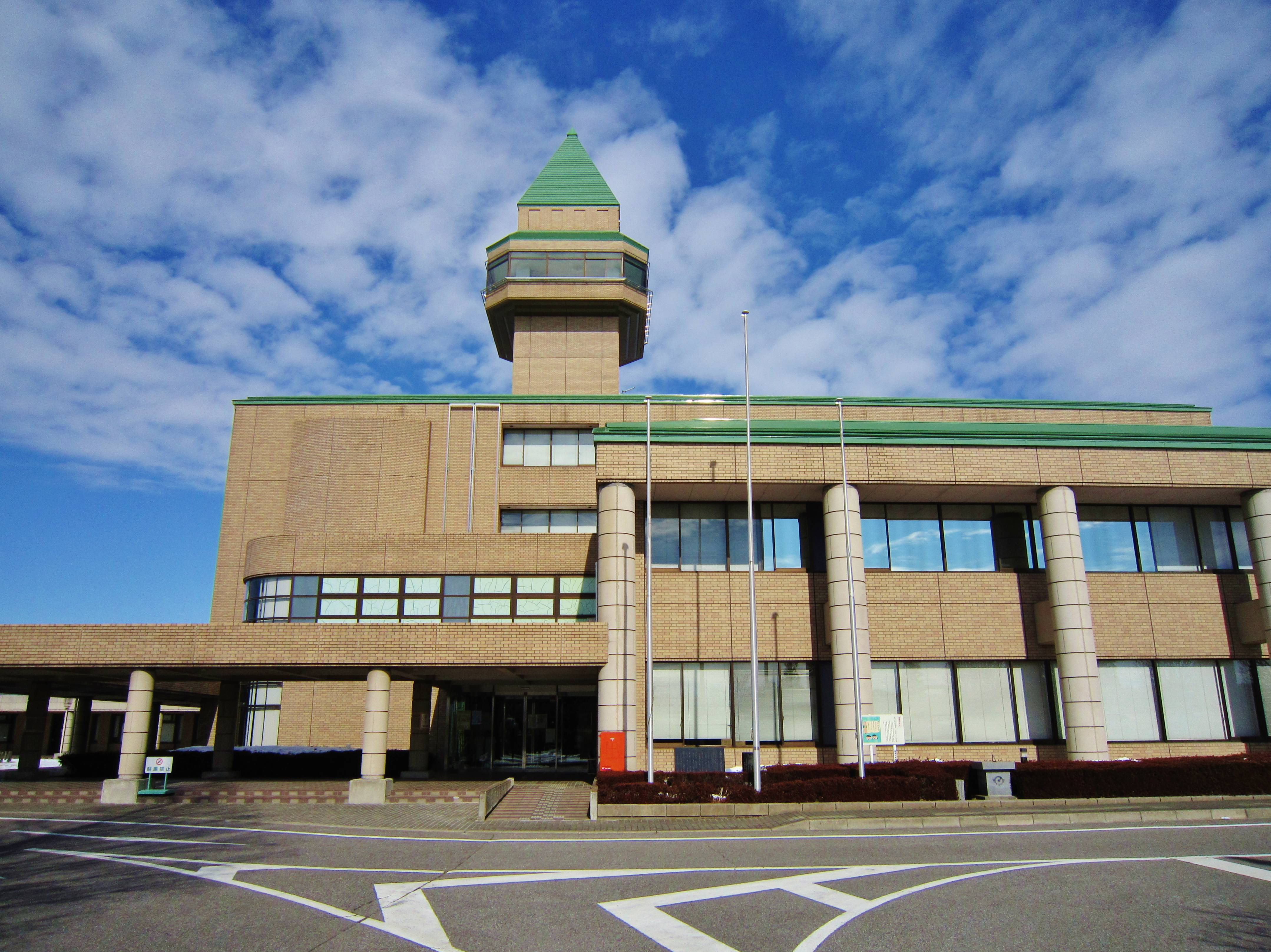 Ota city Ojima branch office.